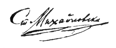 Signature of Stoyan Mihaylovski